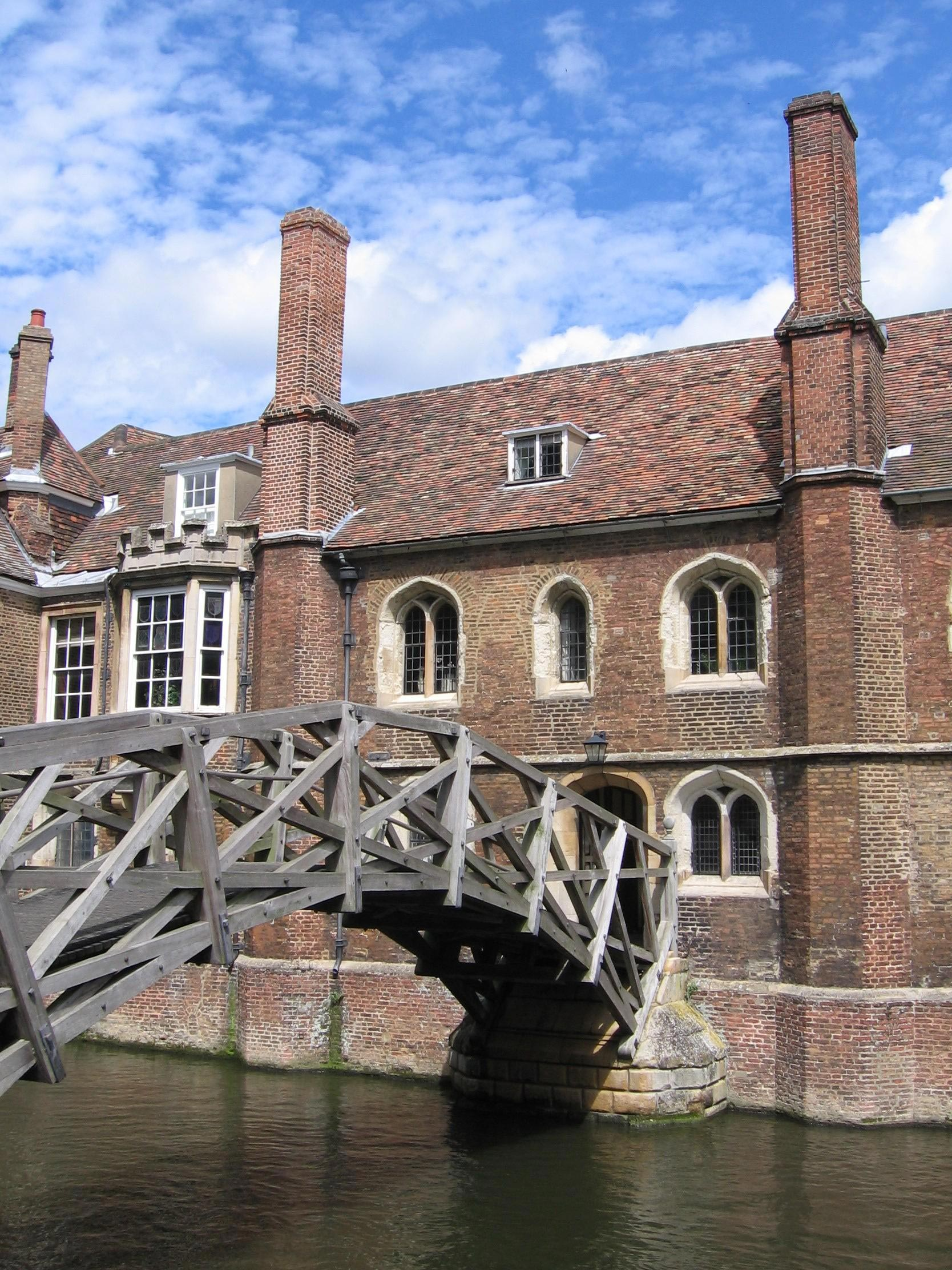 Queens' College and Mathematical Bridge, Cambridge